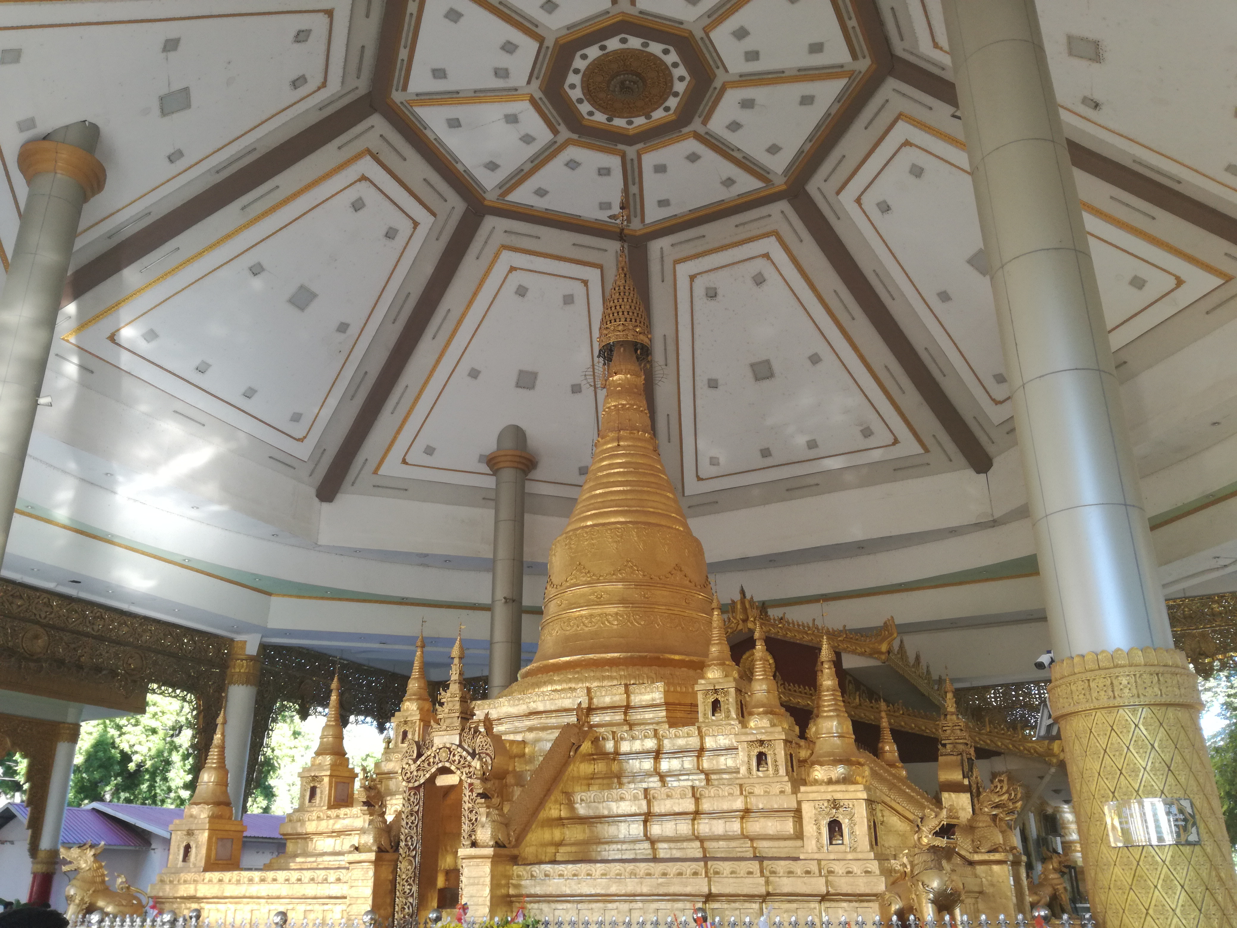 Mahar Shwe Thein Daw Pagoda at Kyaukse မြန်မာဘာသာ: ကျောက်ဆည်မြို့ရှိ မဟာရွှေသိမ်တော်ဘုရား